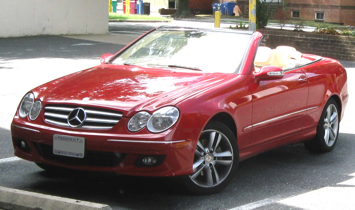 2005-2009 Mercedes-Benz CLK350 convertible photographed in Washington, D.C., USA.